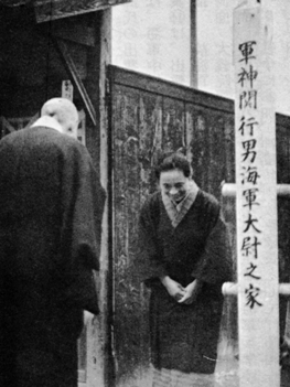 Sakae-seki greeting in front of his home